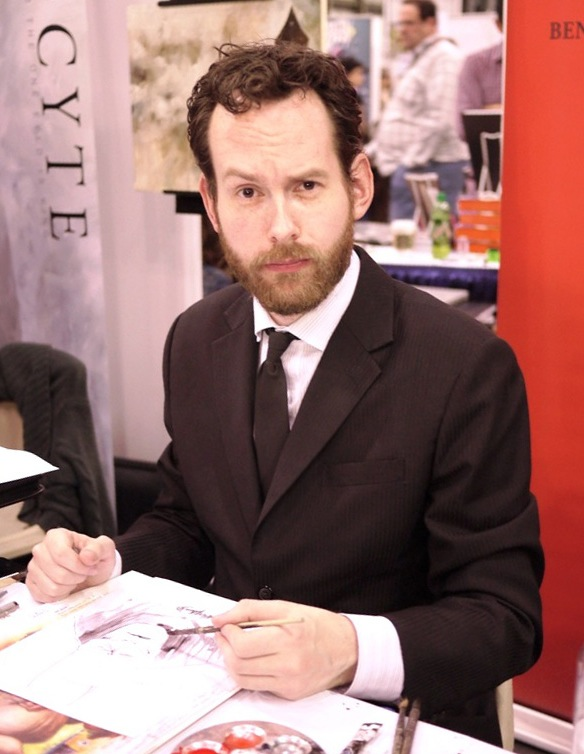 Comics creator Ben Templesmith at the 2011 New York Comic Convention in Manhattan.